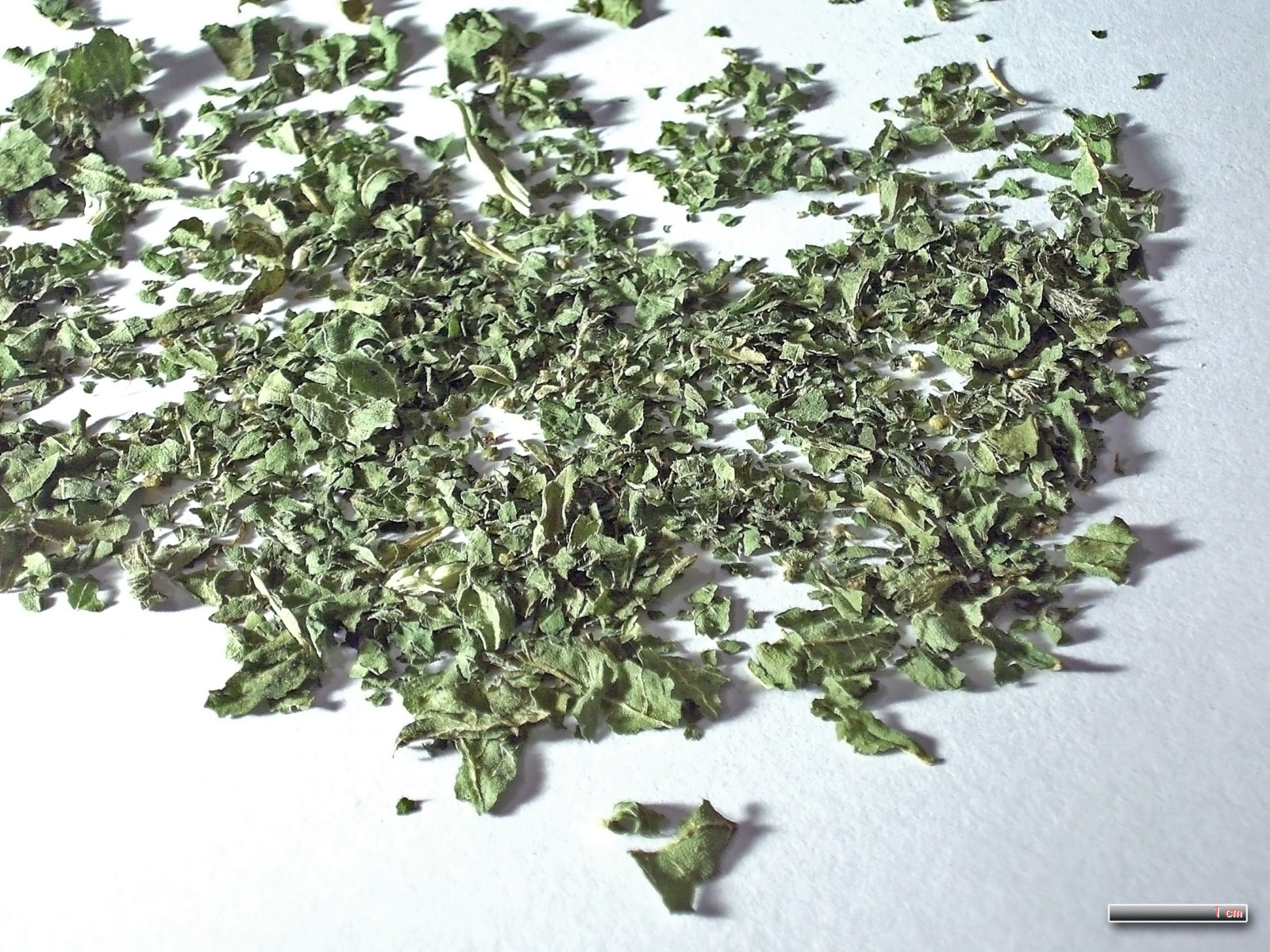 dried Stinging nettle, common nettle, Urtica dioica; leaves